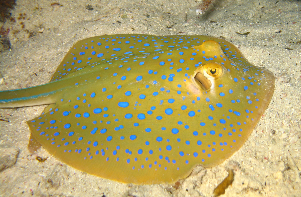 Bluespotted ribbontail ray (Taeniura lymma) off Leyte, Philippines